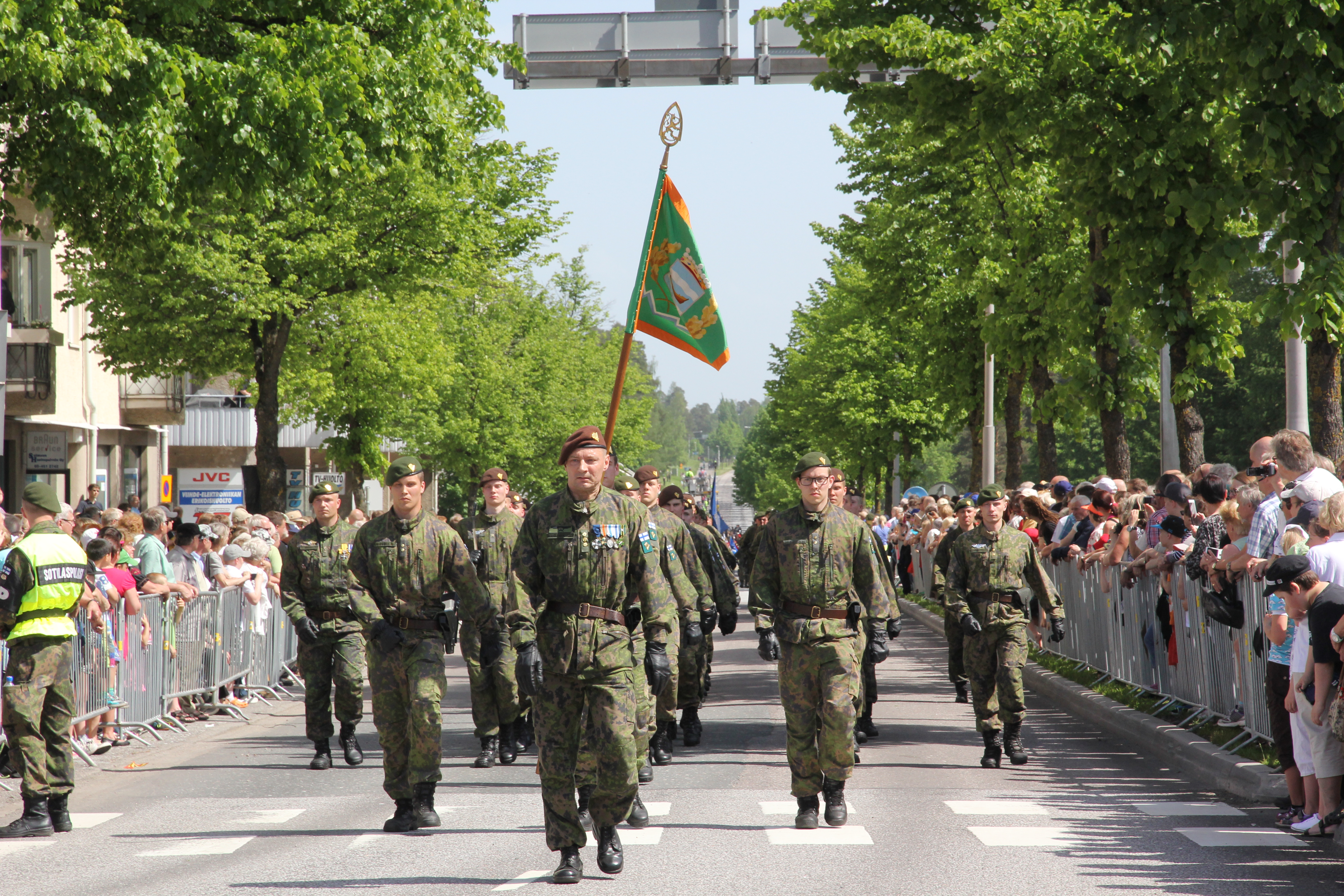 Border and coast guard academy during the Finnish military Flag Day 2014 parade along Valtakatu street in Lappeenranta. Colonel Vesa Huuskonen leading.